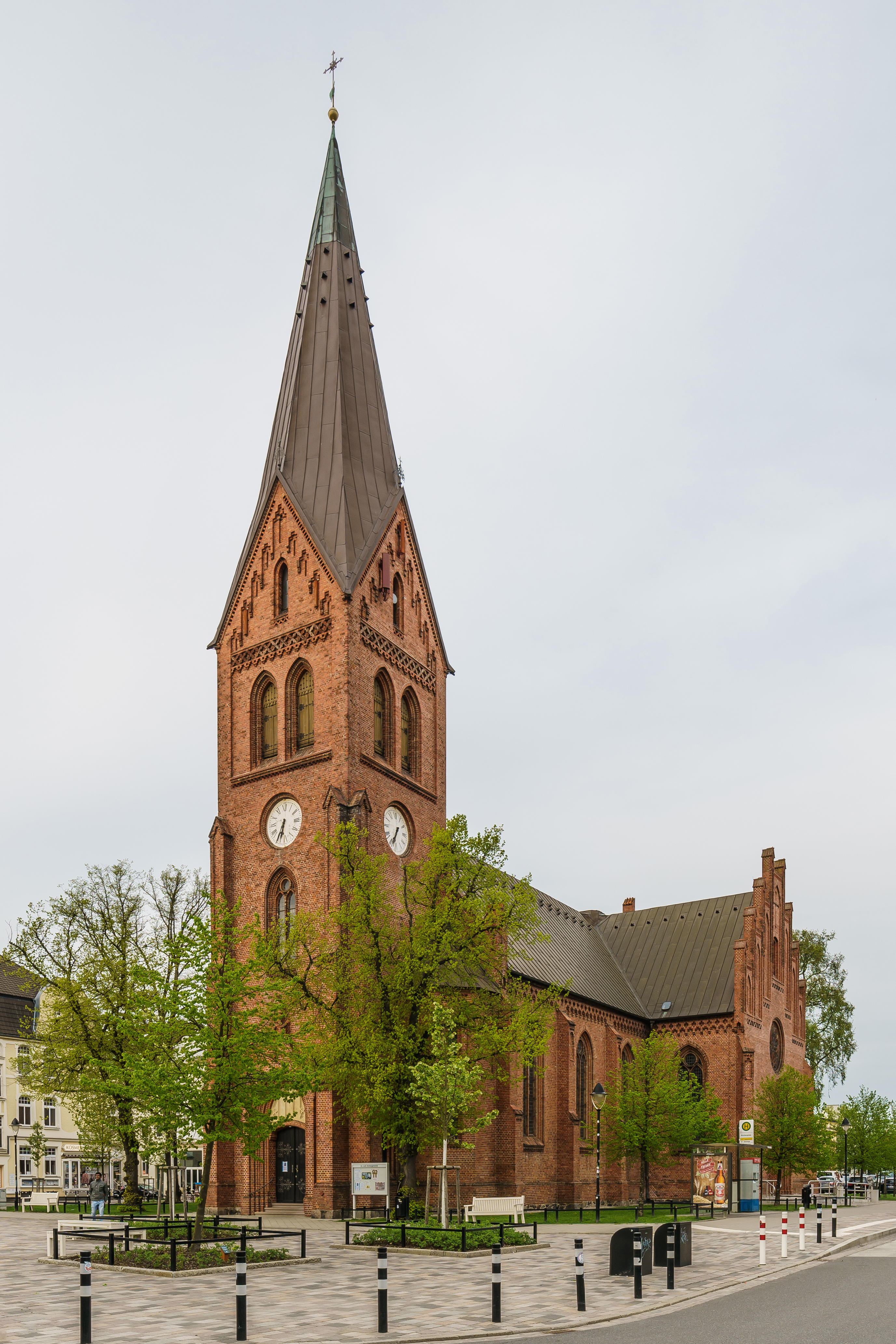 Lutheran Church in Warnemünde, Rostock, Germany